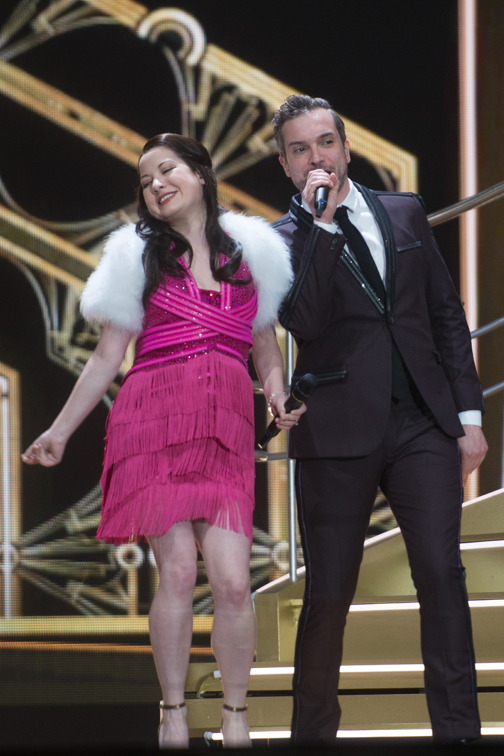 Eurovision Song Contest Vienna 2015: Electric Velvet